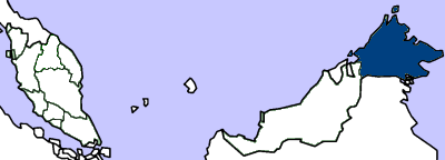 Territorial extent of British Protectorate (later Colony) of North Borneo. Former country category.